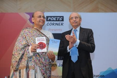 Abhishek Manu Singhvi with Ashok Sawhny